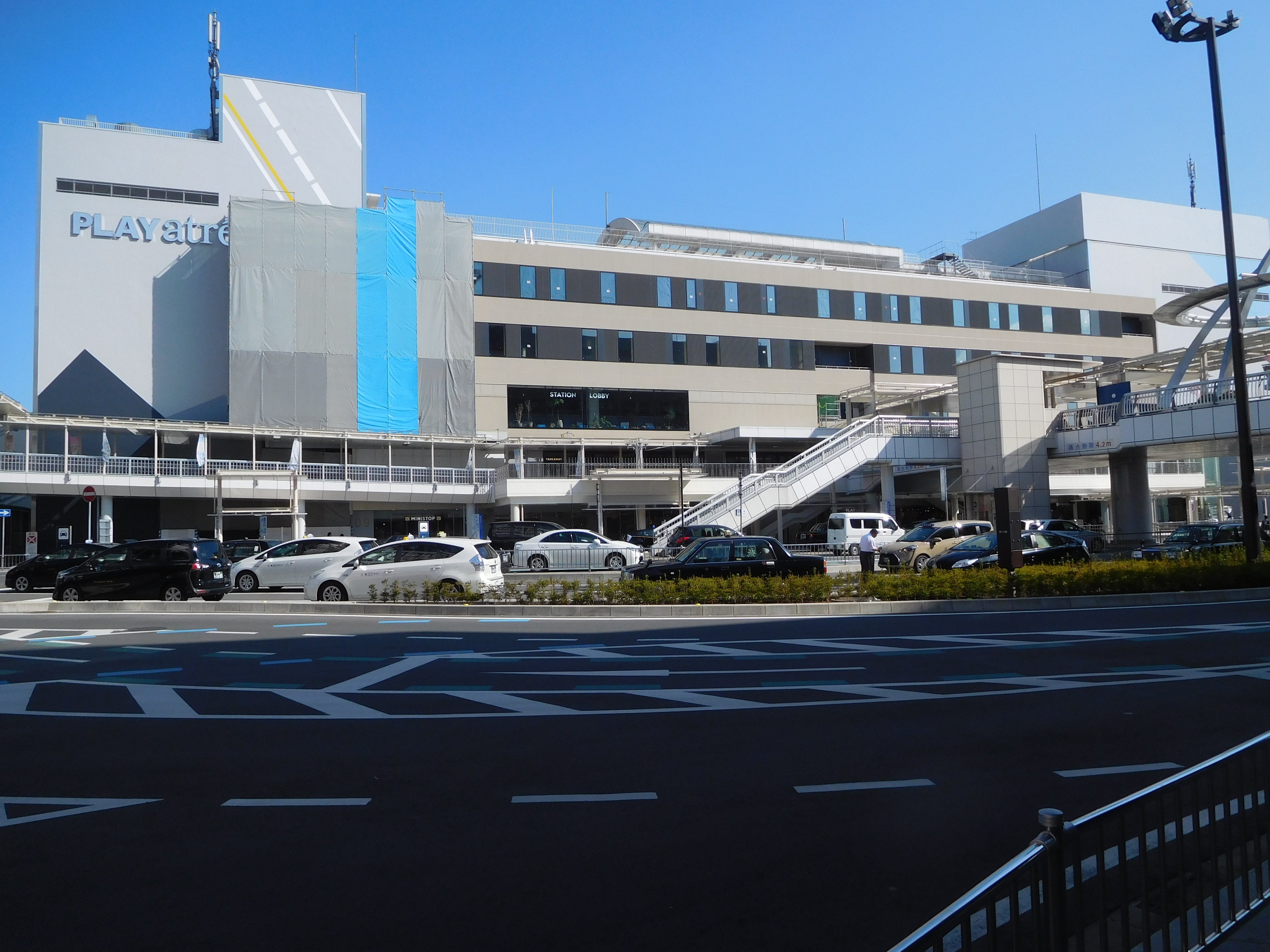 This is JR Tsuchiura station building (PLAYatré TSUCHIURA) in Tsuchiura, Ibaraki, Japan.